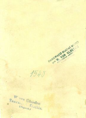 Wilhelm von Gloeden (1856-1931), Reverse of # 1548. It bears a stamp of Gloeden's heir, Pancrazio Buciunì.